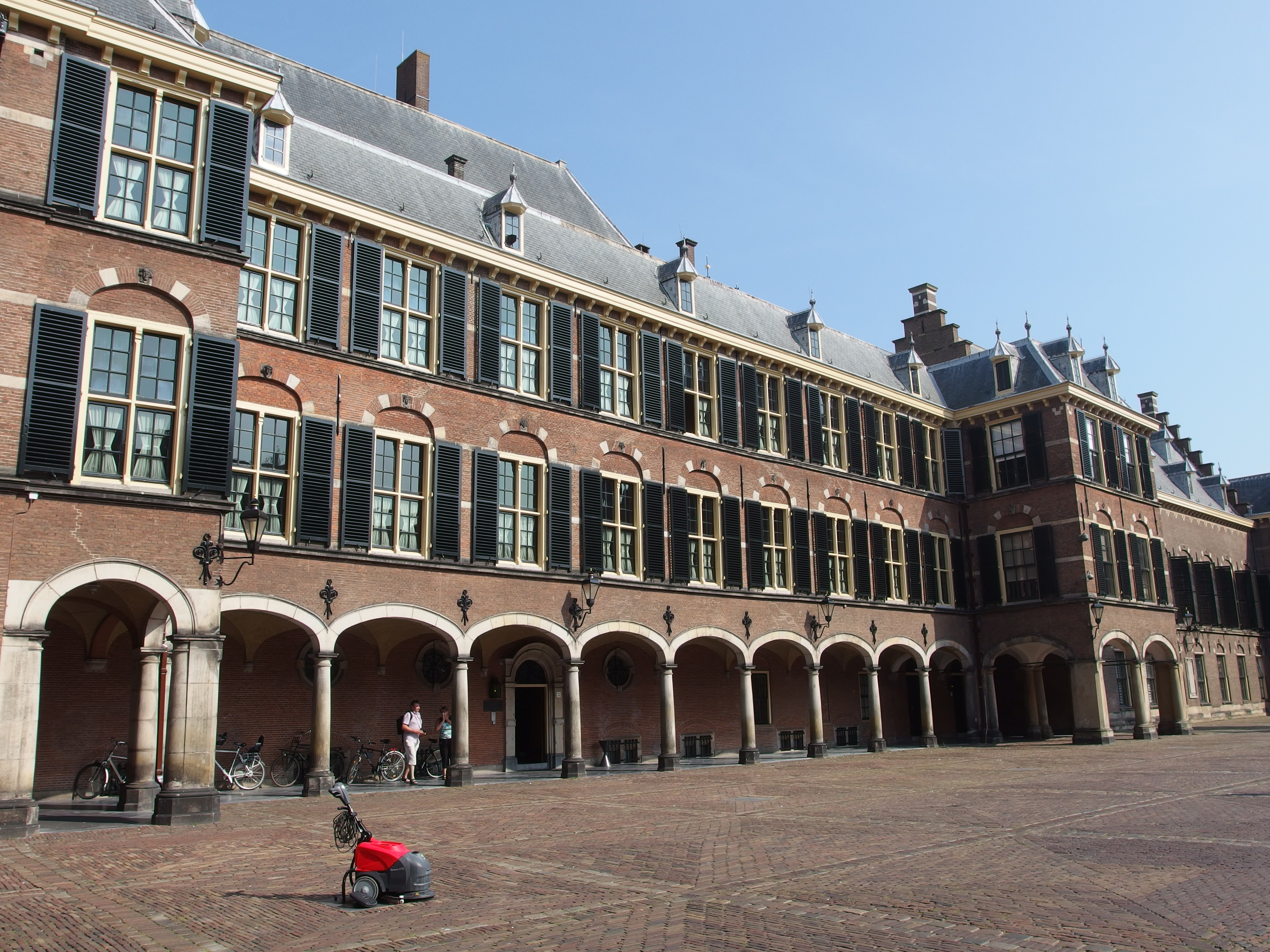 Binnenhof @ Centrum @ The Hague